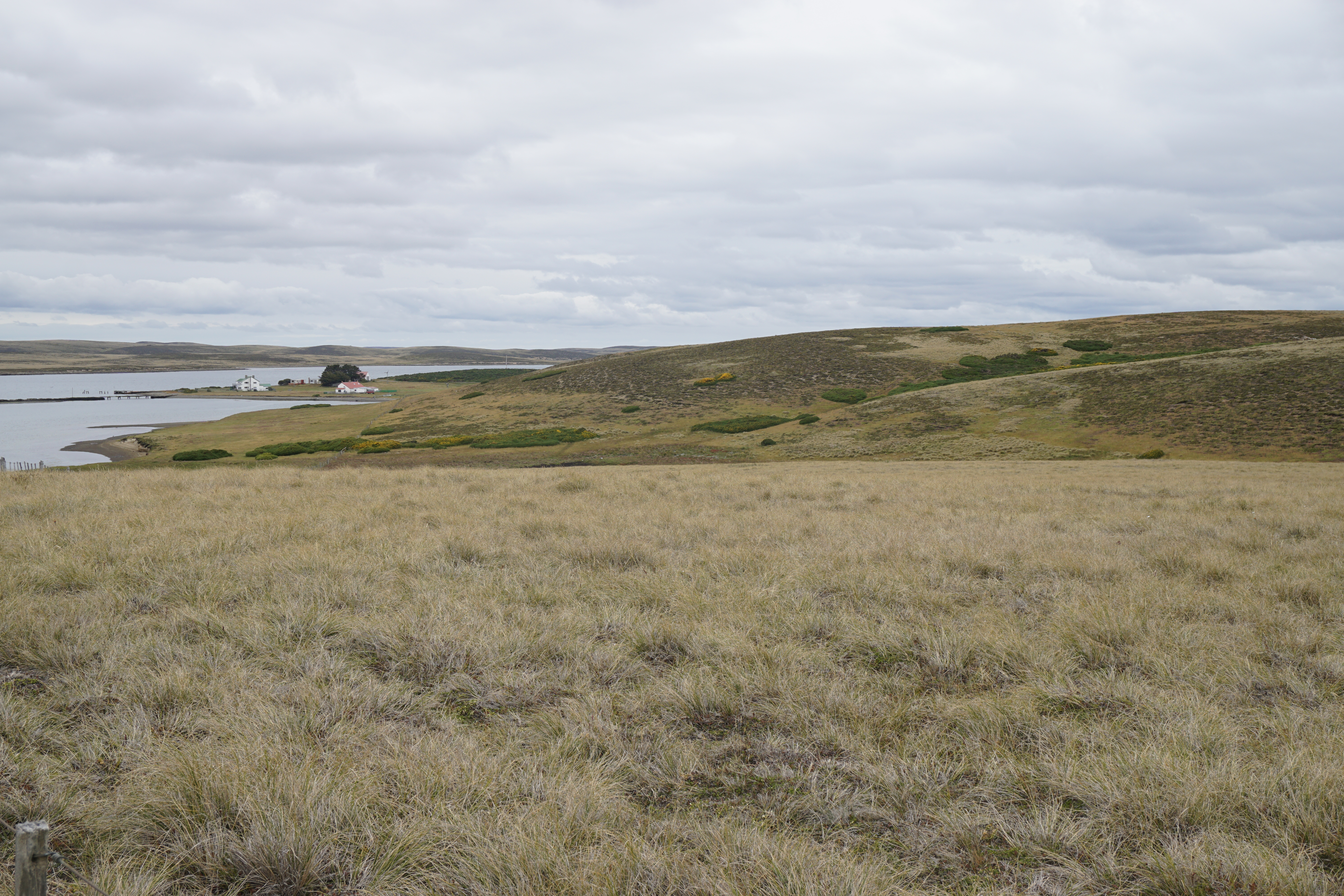 Vegetation and terrain of the area of the Goose Green battlefield, Falklands War (1982). Image is looking south in the direction of 2 Para attack with Darwin settlement on the left.